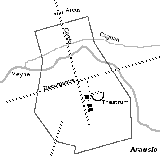 Map of Roman Arausio (Orange)